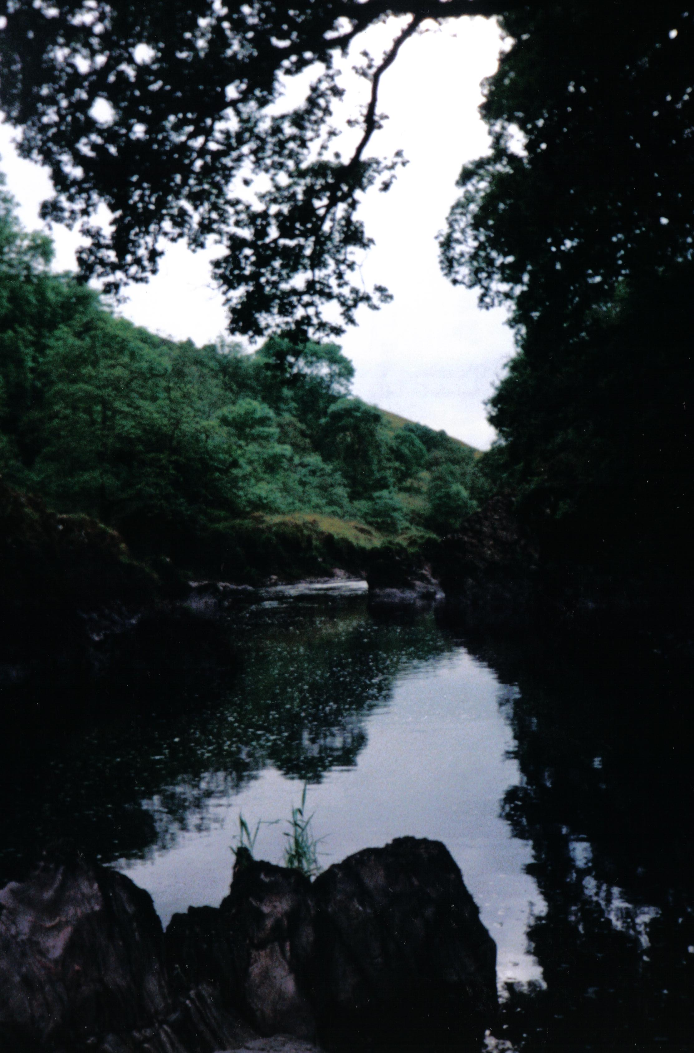 The River Nith, Dumfries & Galloway, Scotland. June 2005. Scotland. Roger Griffith.